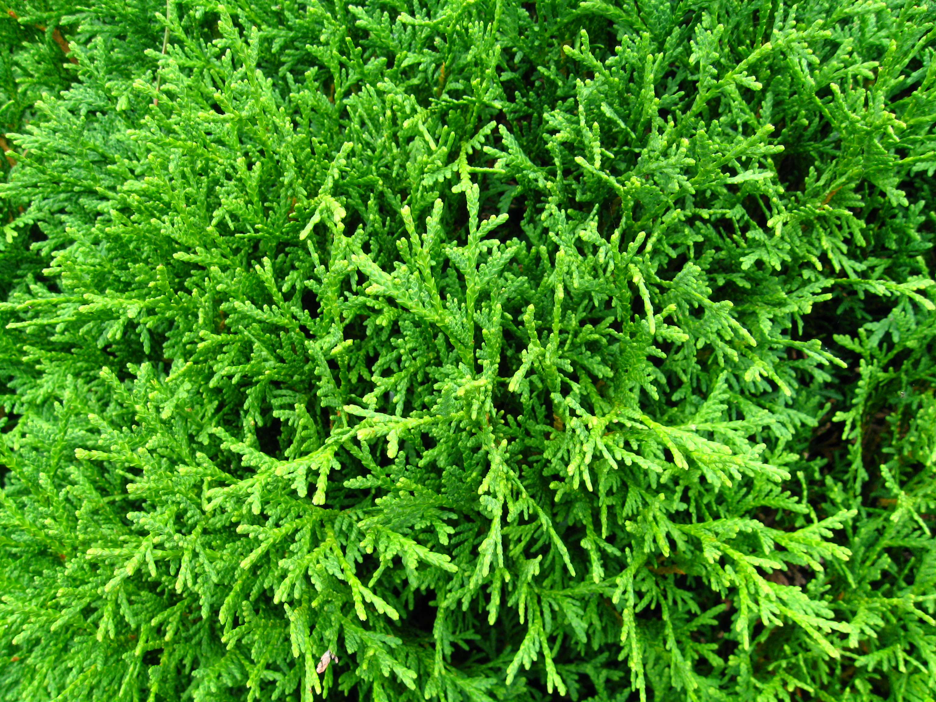 Northern Whitecedar var. 'Mecki' (Thuja occidentalis 'Mecki')